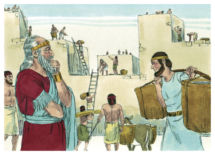 Biblical illustration of First Book of Kings Chapter 11